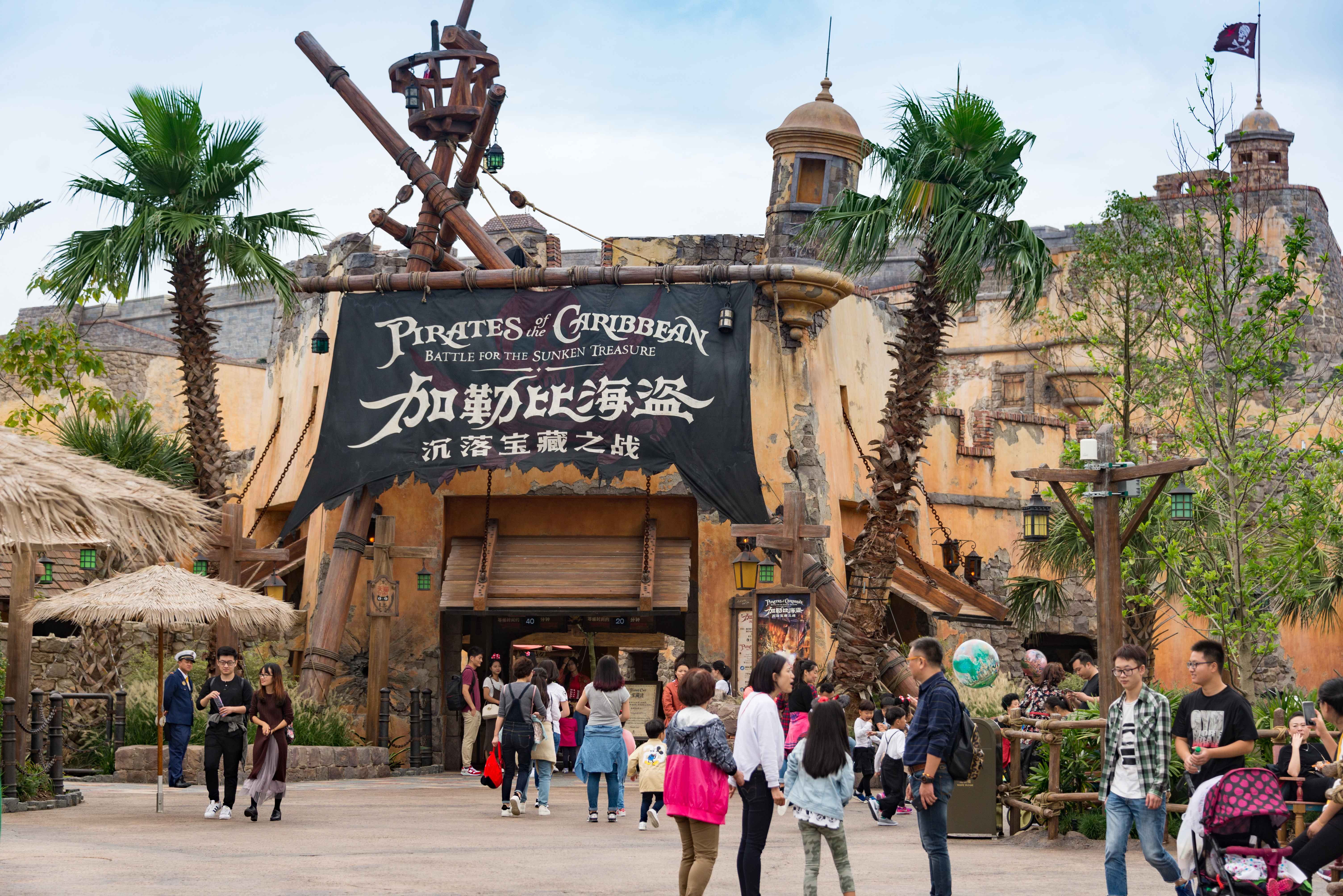 Entrance to Pirates of the Caribbean: Battle for the Sunken Treasure at Shanghai Disneyland Park.